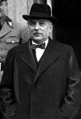 SS-Obergruppenführer Werner Lorenz, Hungarian Ambassador to Germany Döme Sztójay and Speaker of the House of Representatives of Hungary András Tasnádi Nagy in Berlin, April 1940